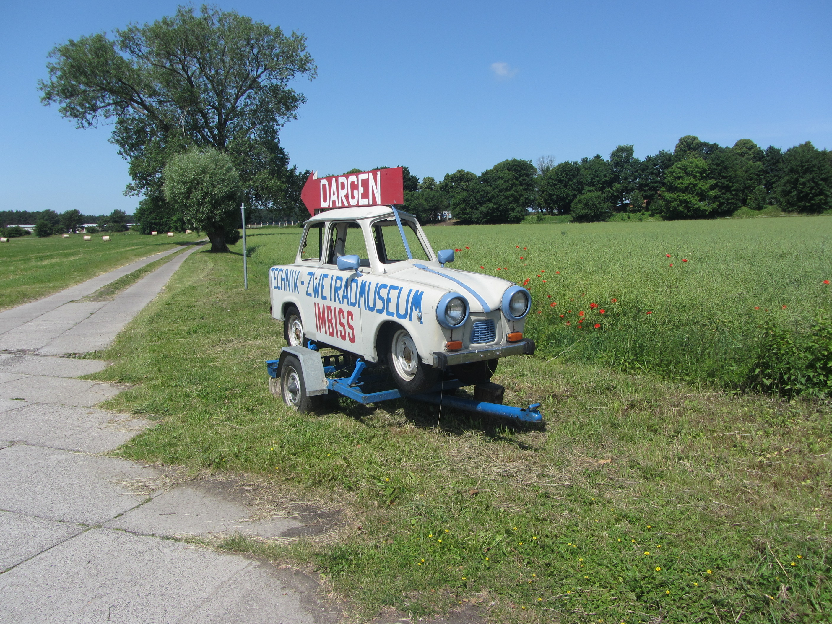 Advertising for a museum near Dargen, district Vorpommern-Greifswald, Mecklenburg-Vorpommern, Germany